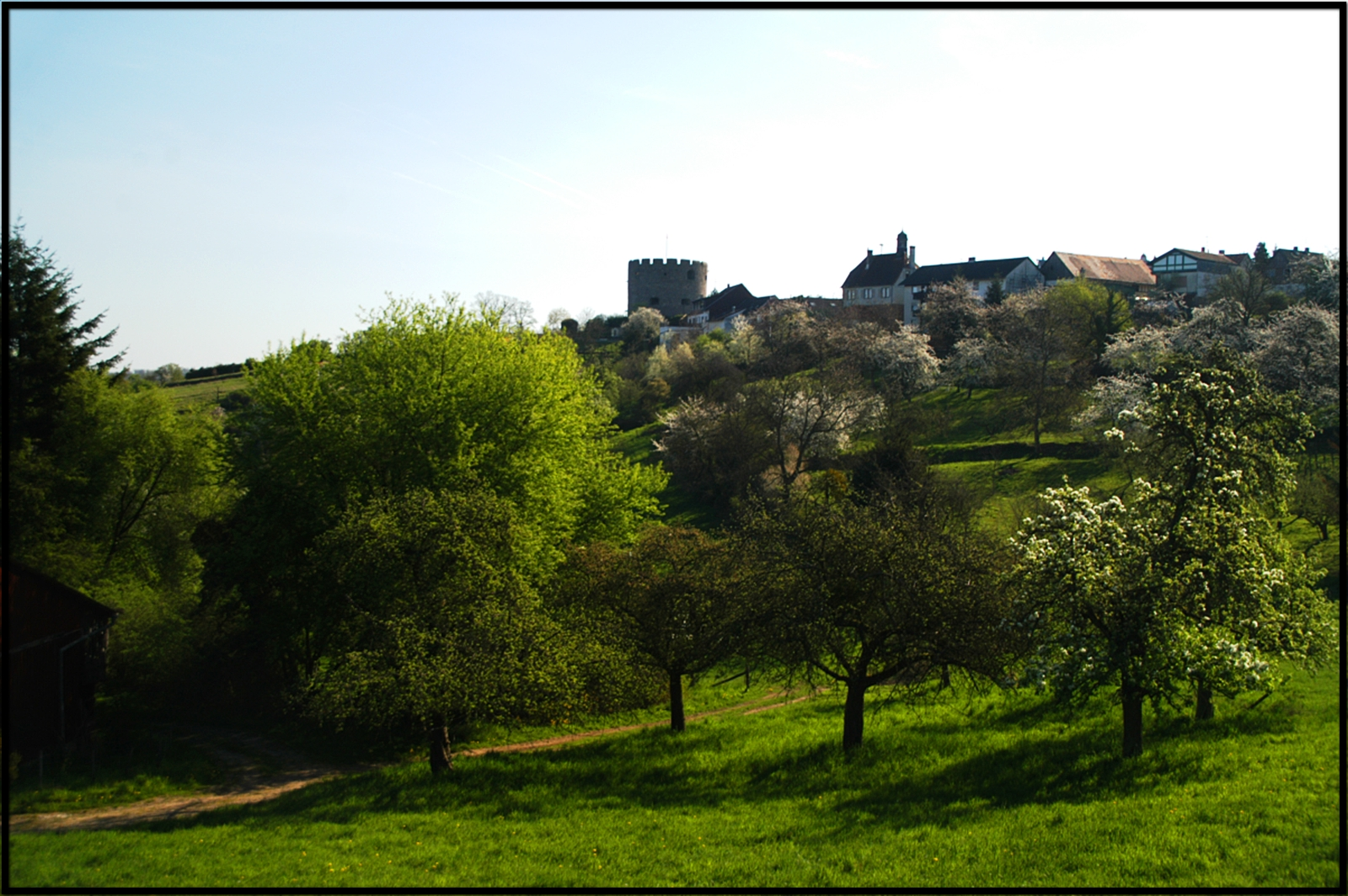 environment Lichtenberg castle